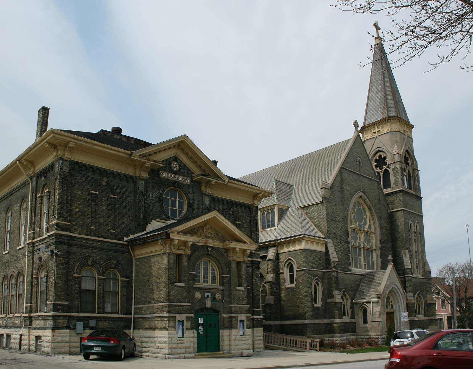 St. Patrick's Roman Catholic Church, Milwaukee, Wisconsin. National Register of Historic Places. 1895 Gothic church building.